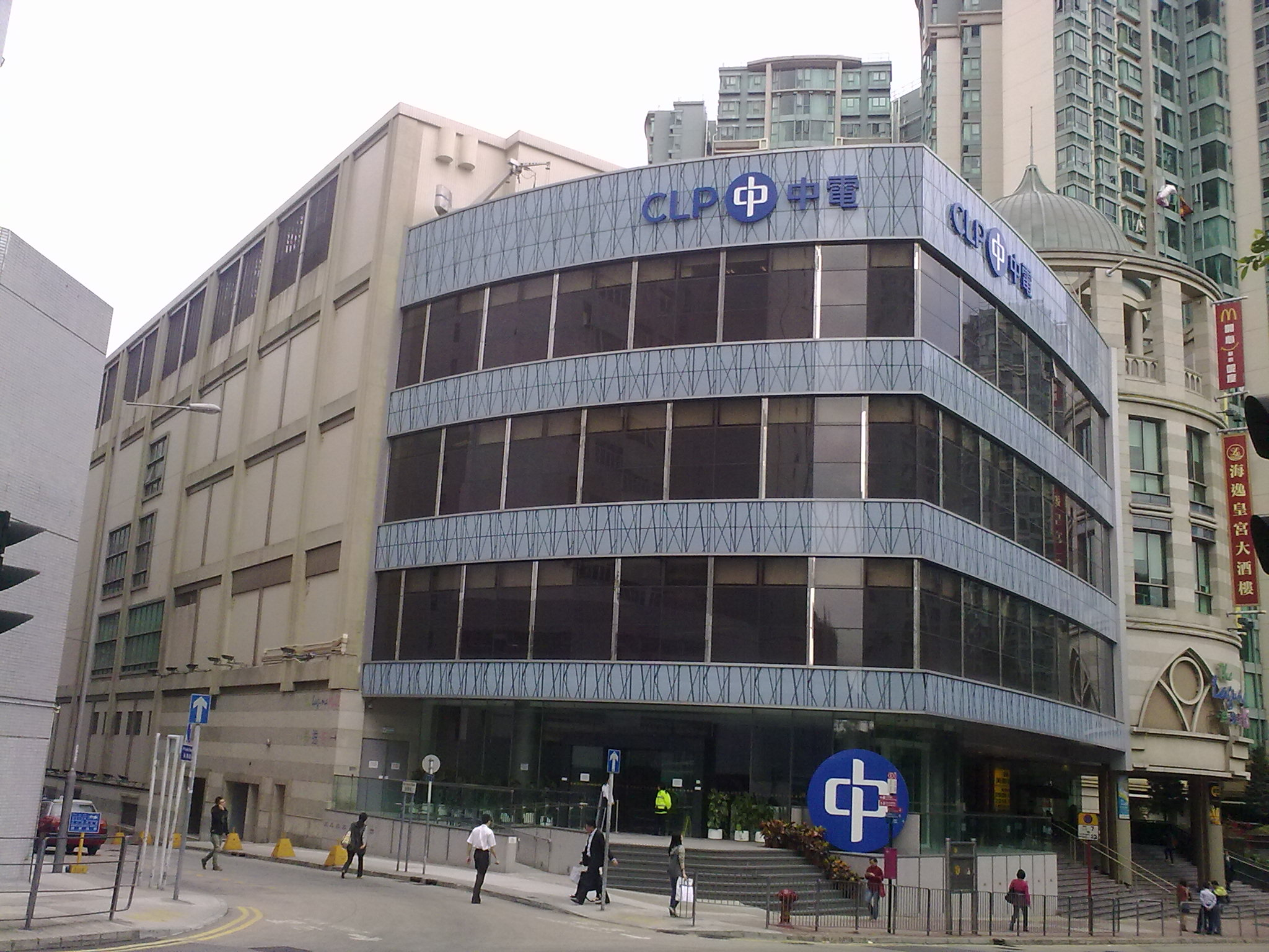 The Laguna Mall(Mar 2014)